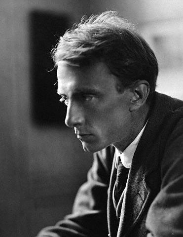 Edward Thomas (1878 - 1917), Anglo-Welsh poet and nature writer, circa 1905